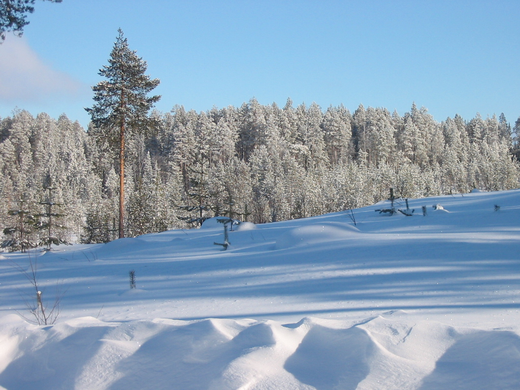 Forest in winter in Tolja, Ranua, Finland